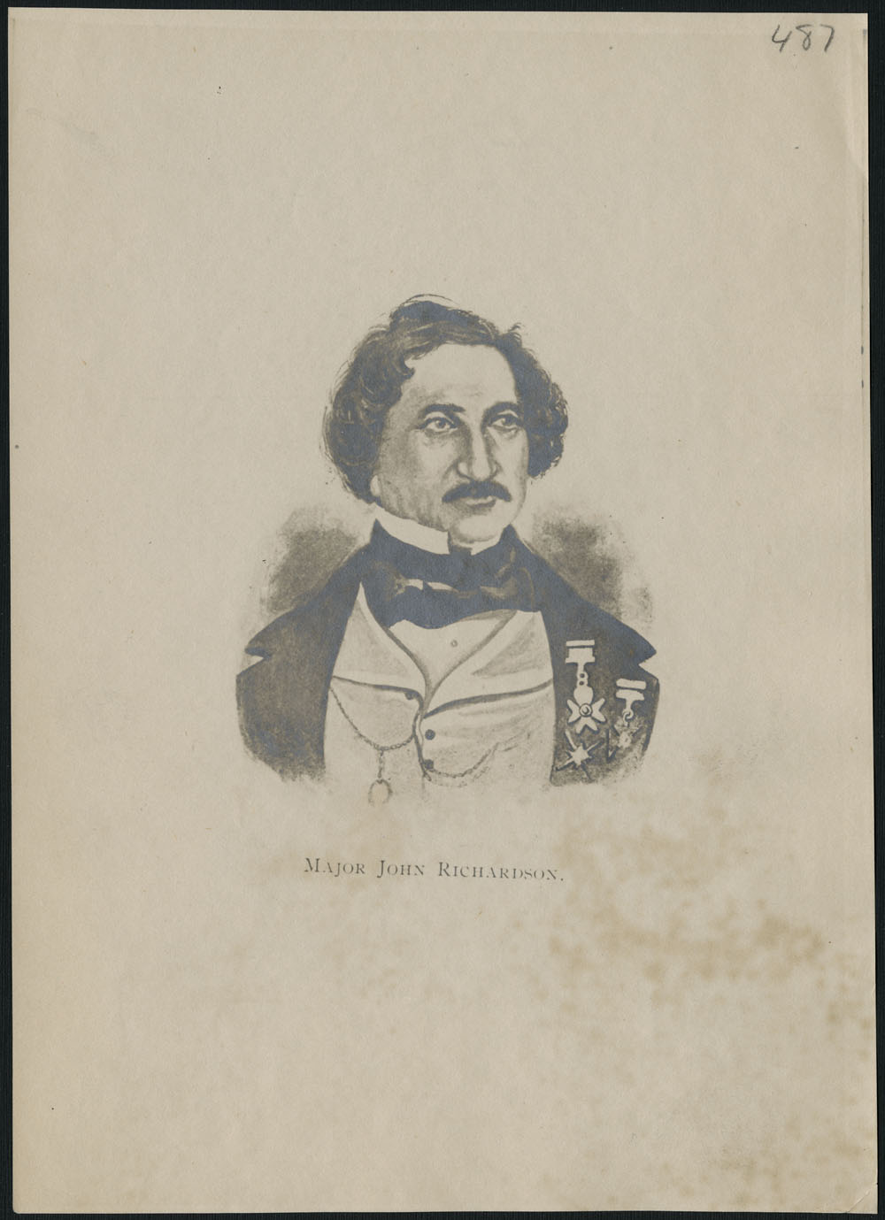 Major John Richardson by Frederick William Lock. John Richardson (4 October 1796 – 12 May 1852) was a British Army officer and Canadian-born novelist. The portrait was published in Richardson's book, Richardson's War of 1812; a print of the portrait is held by the Library and Archives, Canada. (Accessed 2016-02-17).